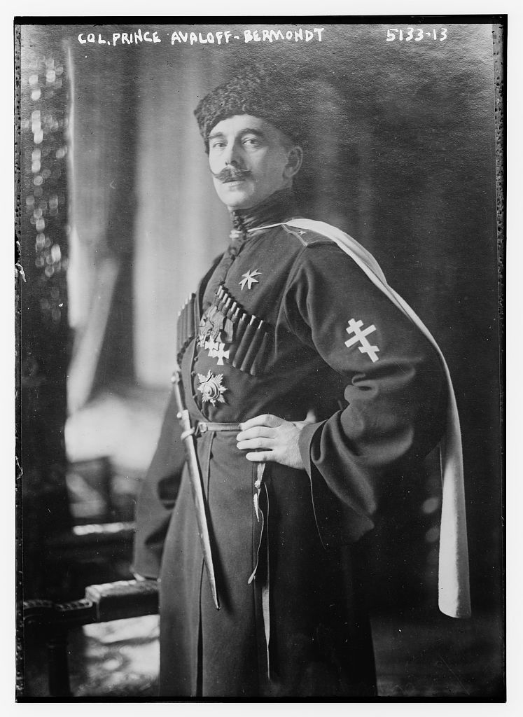 Pavel Bermondt-Avalov circa 1920